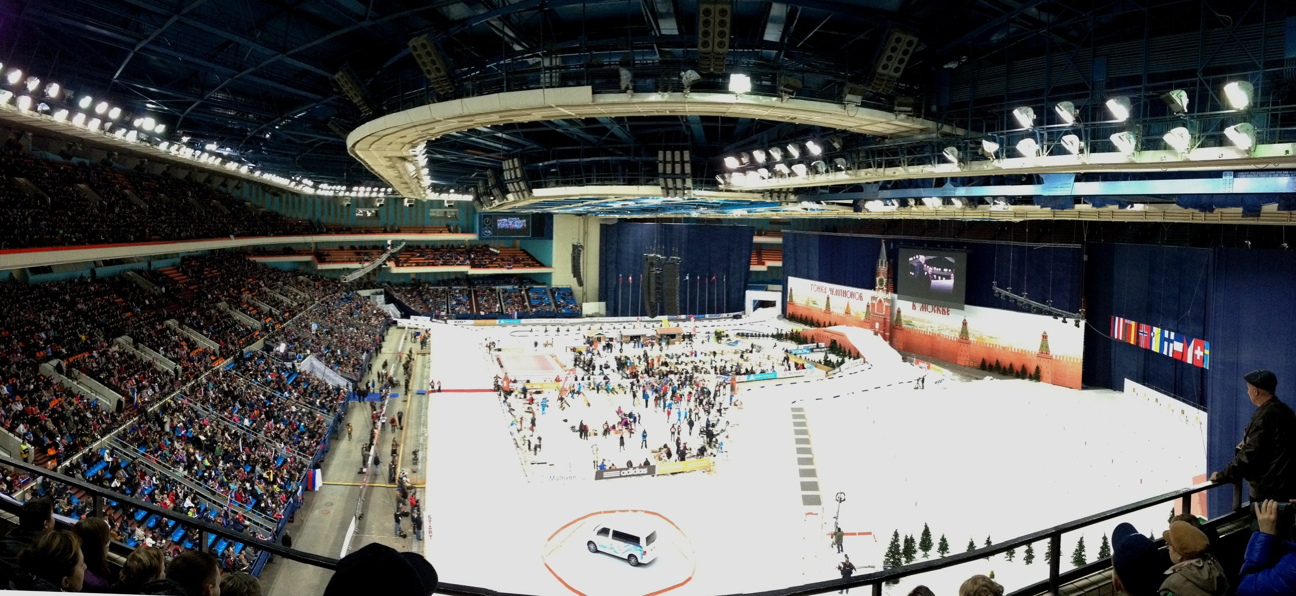 Biathlon competition Champions Race 2014, Olimpiisky, Moscow